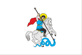 Flag of Pechenizkyj district (Ukraine)